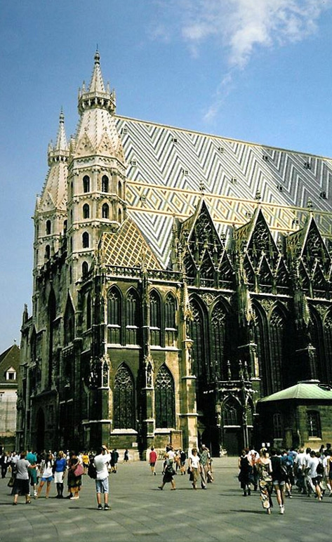 Wien Cathedral - Austria, 1998